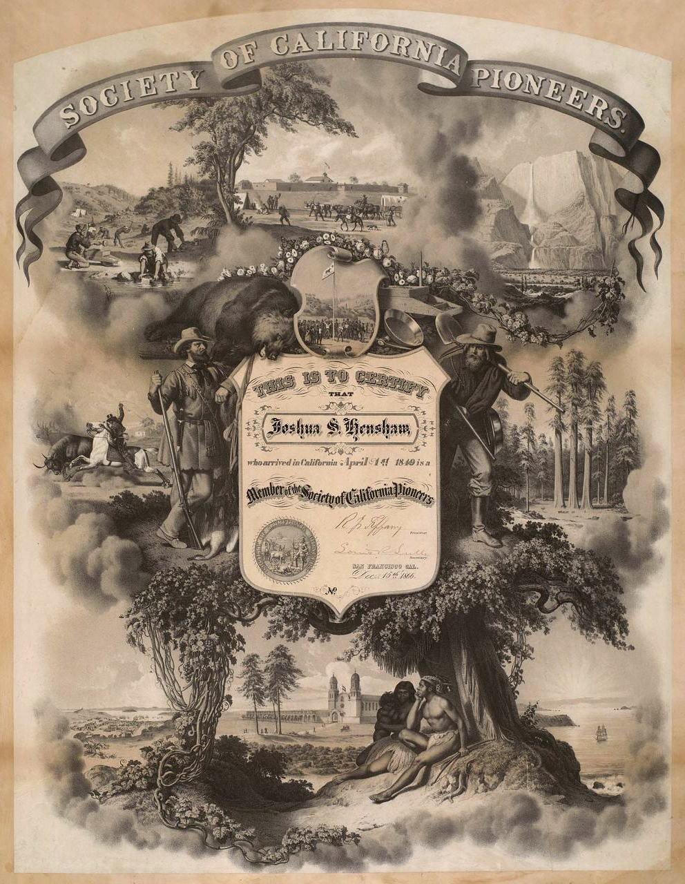 Membership certificate for Joshua S. Henshaw to the Society of California Pioneers. Print on paper mounted on heavy paper: lithograph 61.1 x 50.4 cm., on sheet 74.8 x 59 cm.